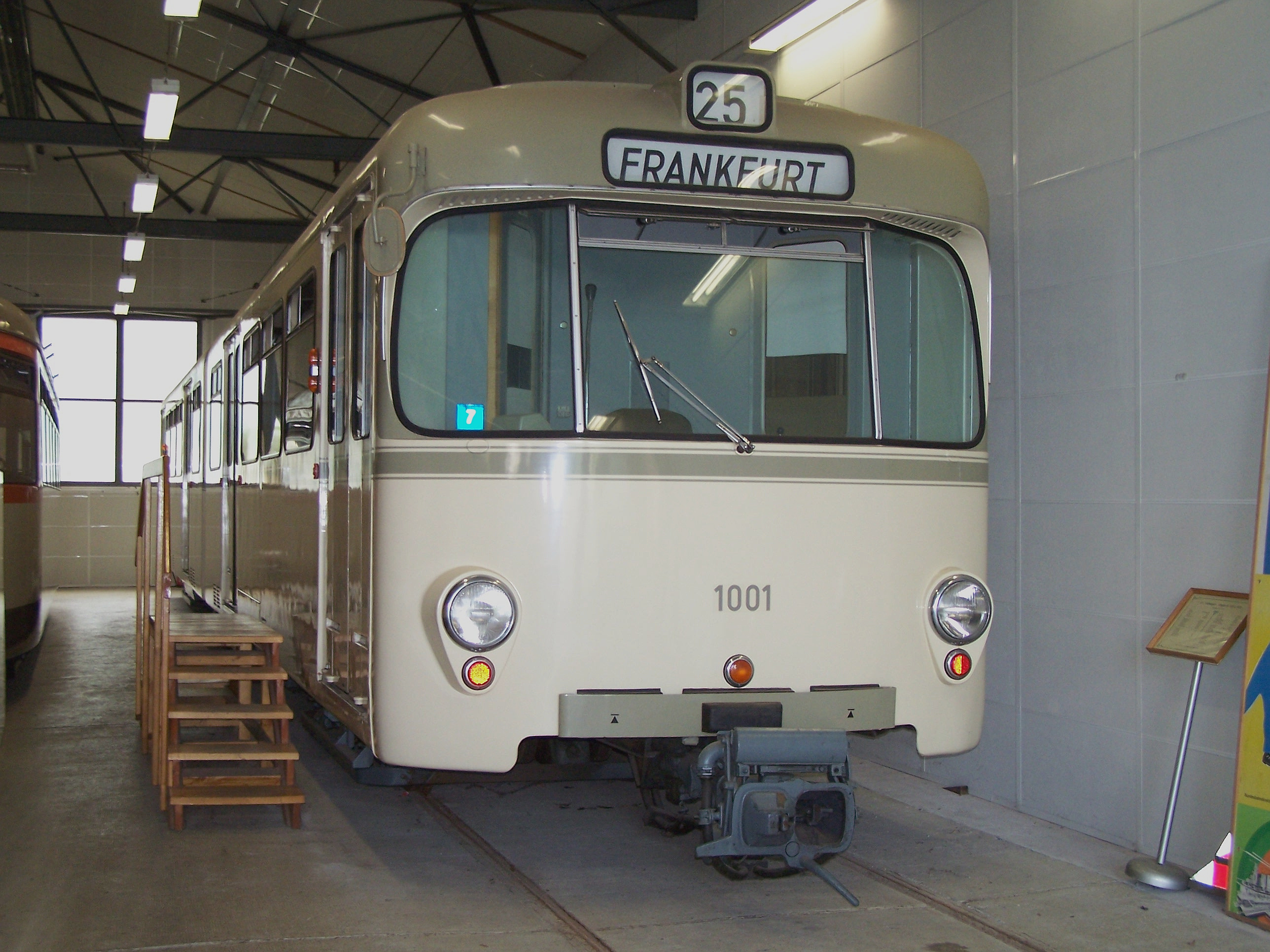 Class U1 light rail vehicle No. 1001 (301) in the Frankfurt on Main Transport Museum in Frankfurt am Main--Schwanheim